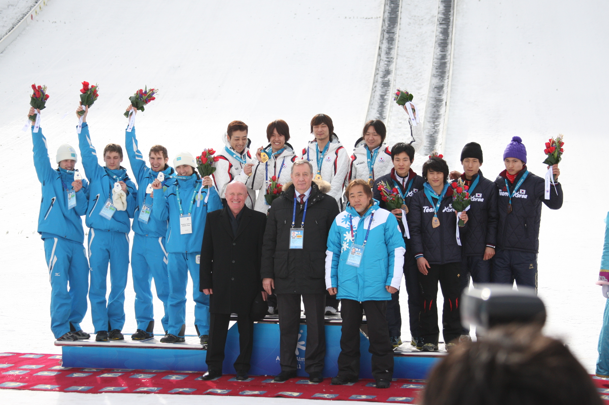 Ski jumping team event podium during 2011 Winter Asian Games.